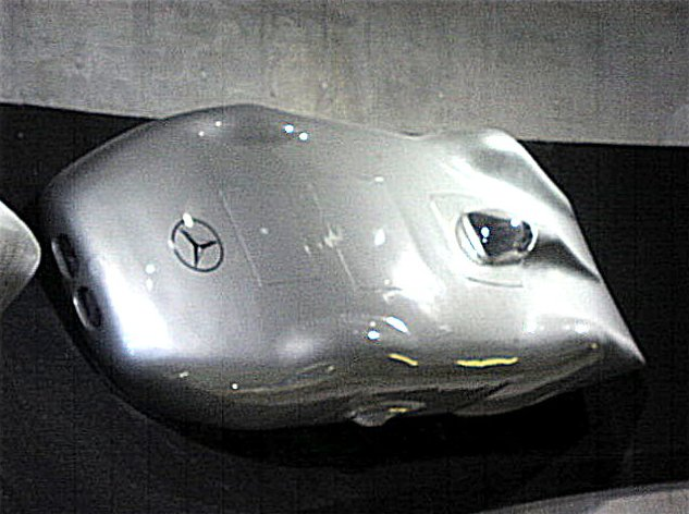 Mercedes-Benz W125 Record car 12 Cylinder Record Car 1938